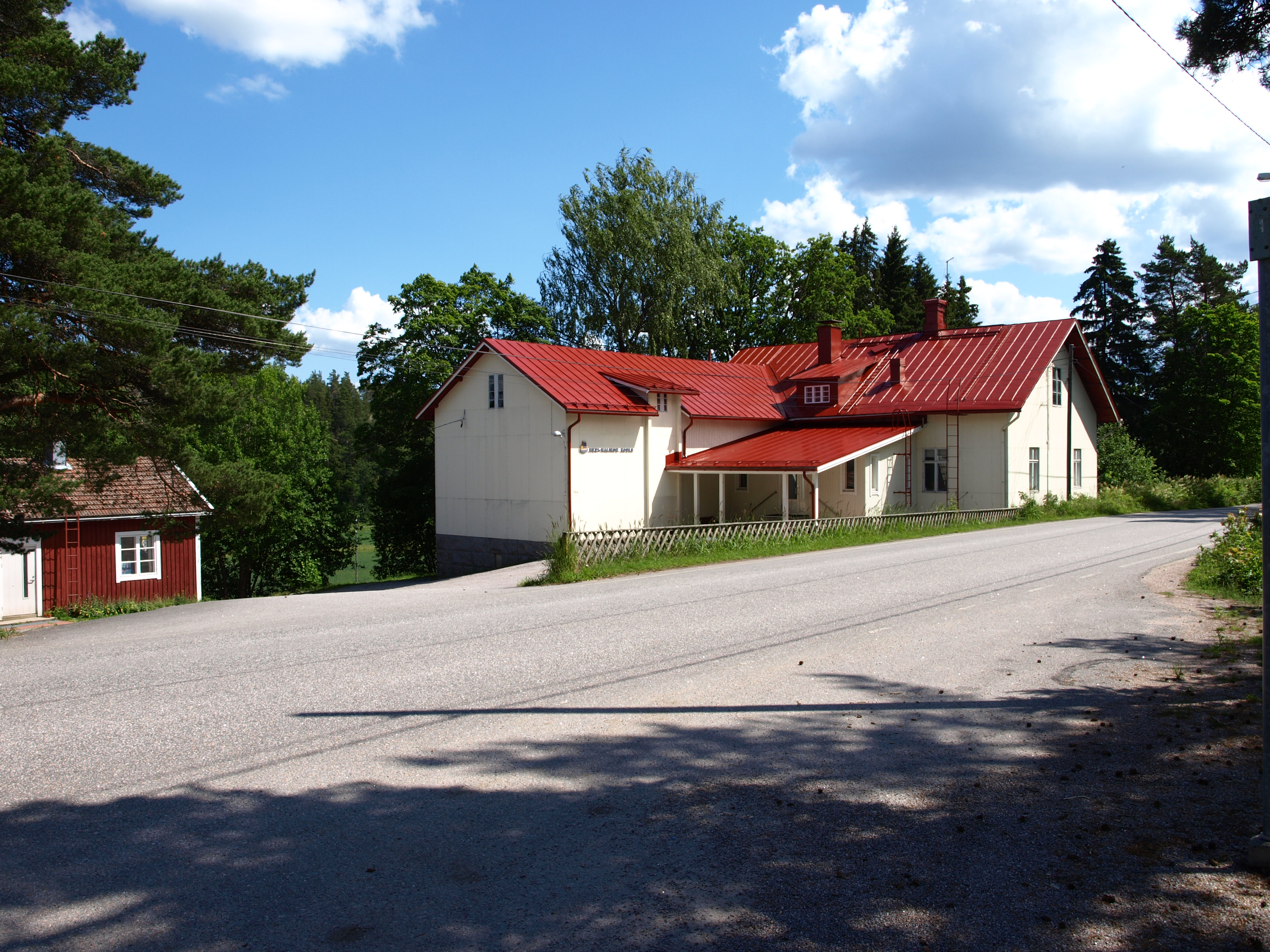 Meri-Halikko School in Kokkila, Salo, Finland.